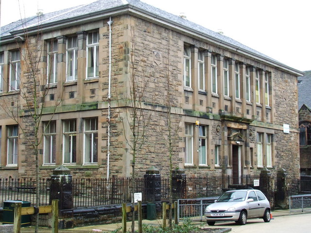 Clune Park Primary School A fine old school building on Robert Street, built in 1887, still in use as a school today. See details of ornate carvings on the front facade here 360440, 360450, 360493, 360465.